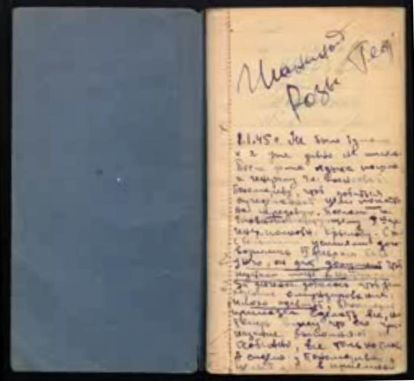 A page from Roza Shanina's diary.